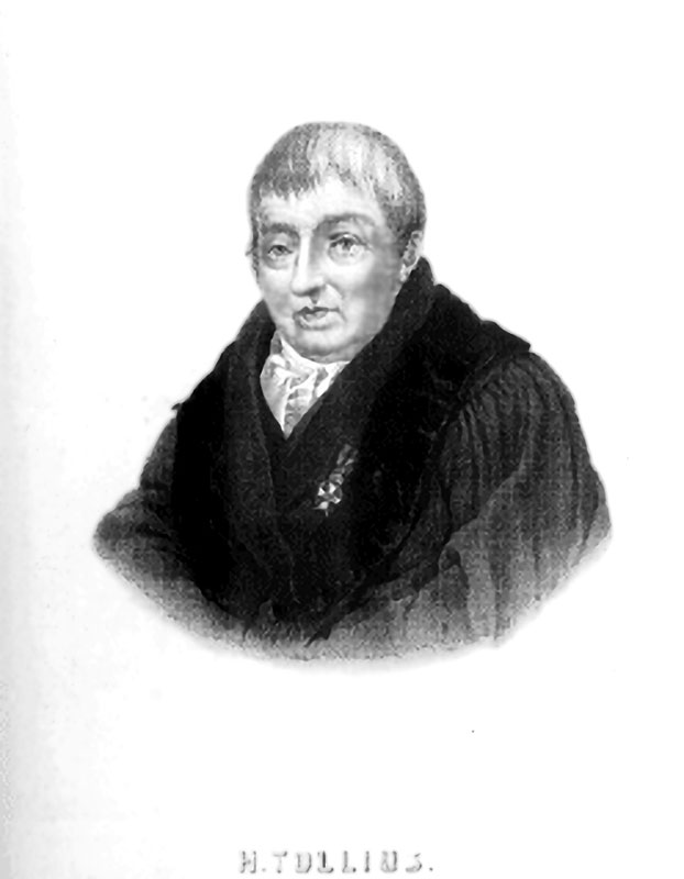 Herman Tollius (1742-1822) Dutch philologist, historian and lawyer